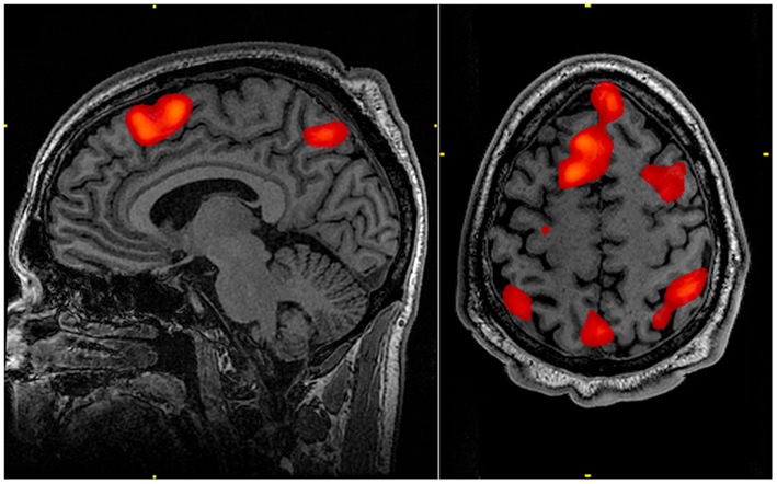 FMRI scan during working memory tasks. Working memory tasks typically show activation in the bilateral and superior frontal cortex as well as in parts of the superior bilateral parietal cortex. The highlighted regions showed significantly different activation between an individual performing a 1-Back task versus a 2-Back task.(Graner J, Oakes TR, French LM and Riedy G 2013)